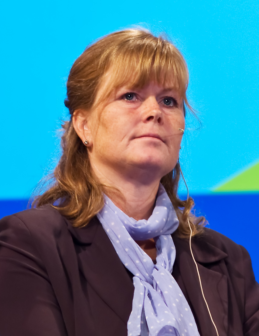 Charlotte Brogren, Director General, VINNOVA. Photo by Anna Stasevska.